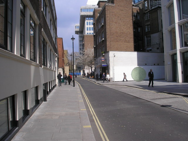 Palmer Street, London This otherwise unremarkable street is where the west exit from St. James' Park station on the District and Circle Lines emerges, and as every London Geographer should know, it's a very short walk to the National Map Centre, very probably the best map shop in the world.